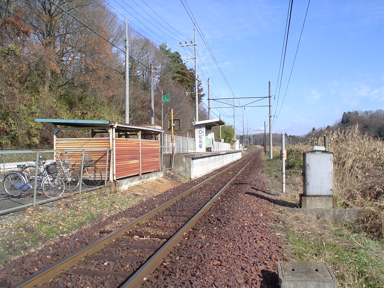 Minakuchi Matsuo Station in shiga pref, japan